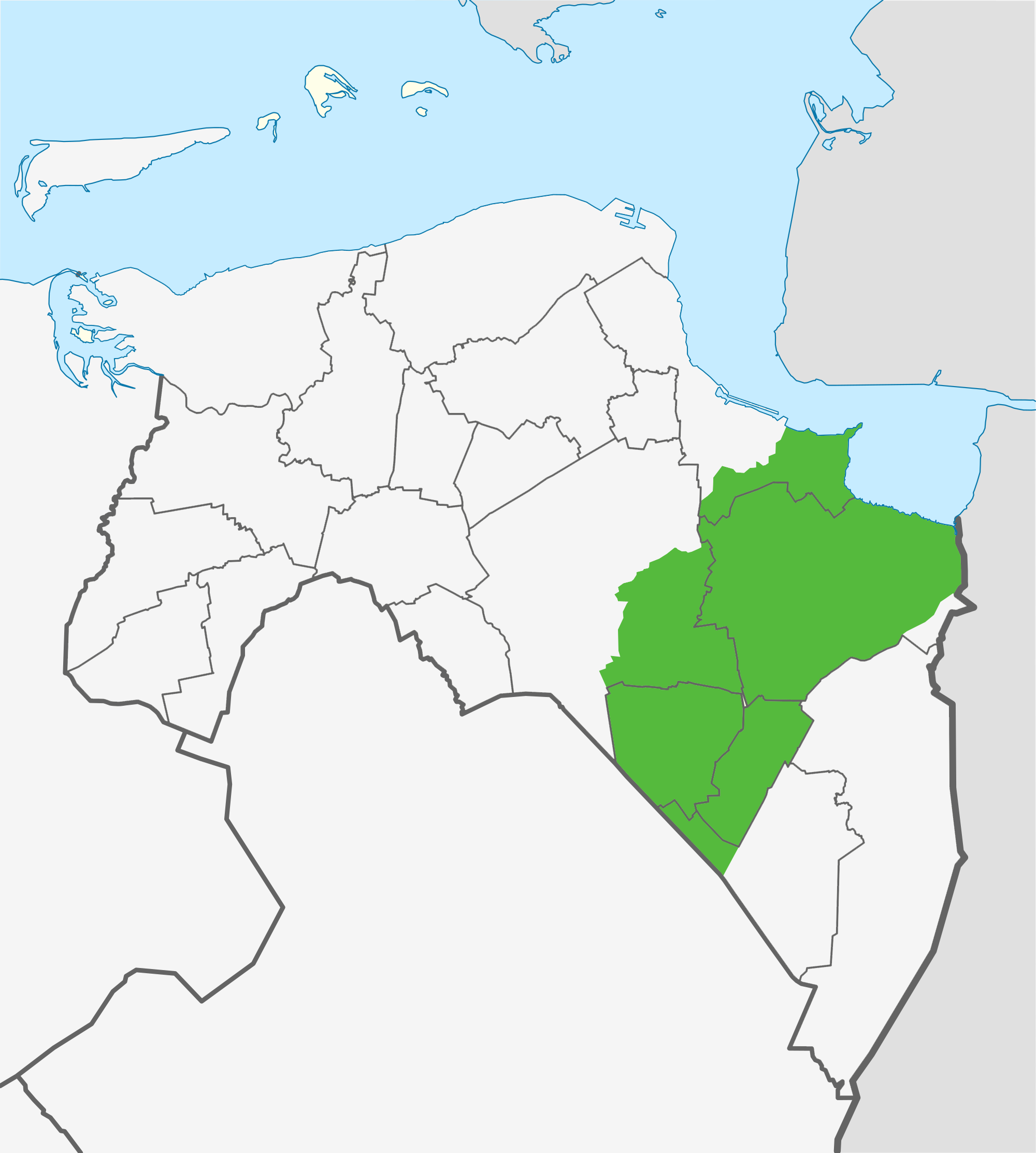 Location of Oldambt in the province of Groningen Based on File:Netherlands Groningen location map.svg